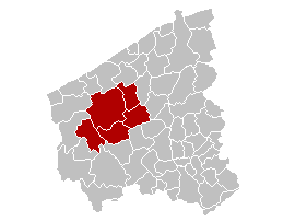 Location of Arrondissement Diksmuide in Belgium.